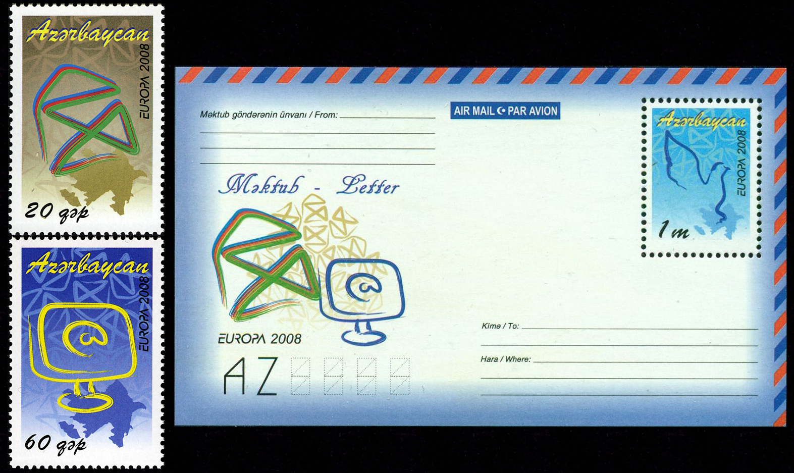 Postage stamps of Azerbaijan, 2008. Letter. Issue on the program Europa.